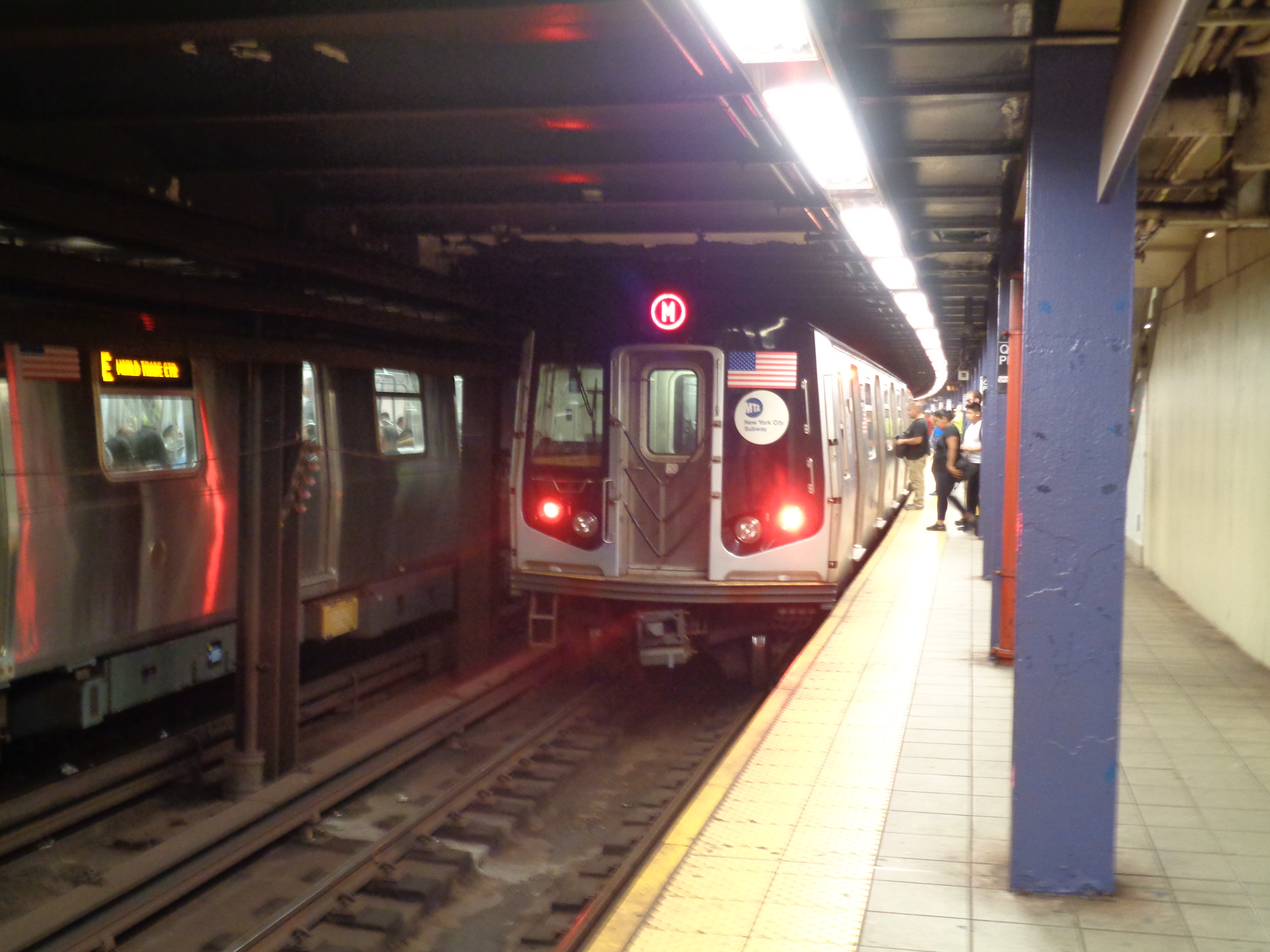 A Forest Hills-bound M train stopped at the Queens-bound platform of the Queens Plaza station in Long Island City, Queens.